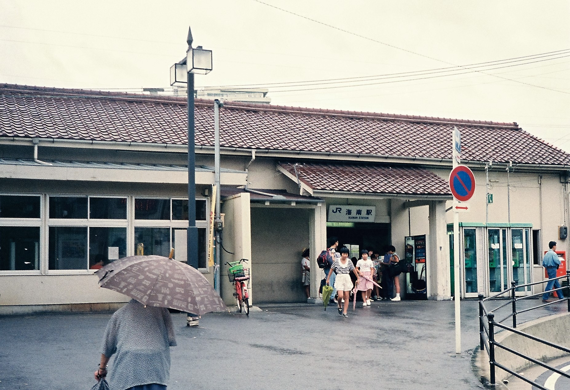 Kainan Station on the Kise Main Line